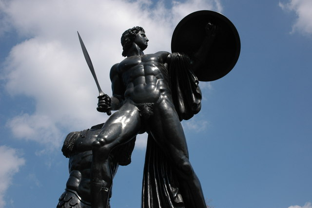 Statue of Achilles in the corner of Hyde Park is in memory of the Duke of Wellington.